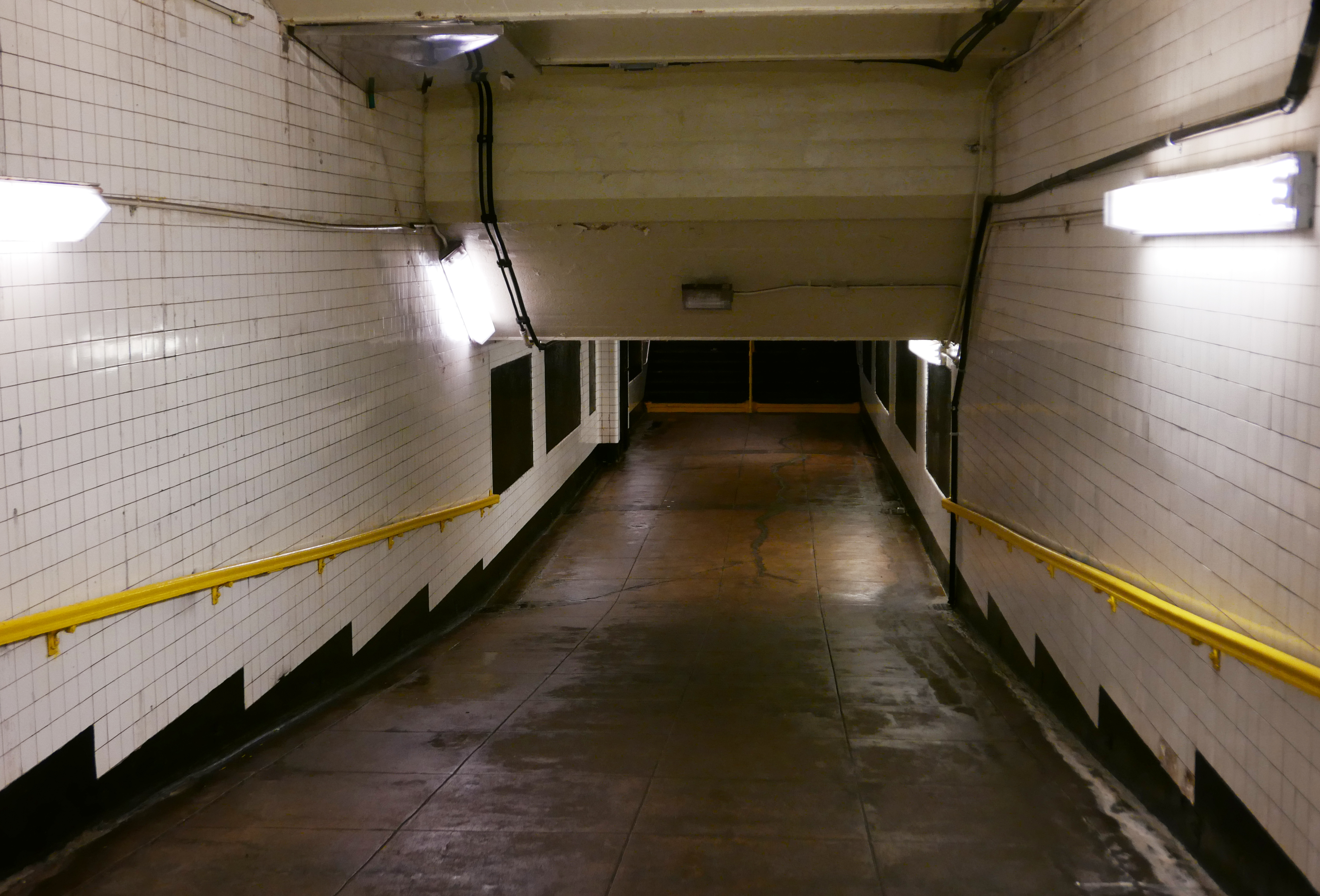 The underpass of the IND Dyckman Street station. Taken from the northbound side.